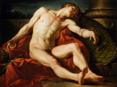 Death of a Gladiator